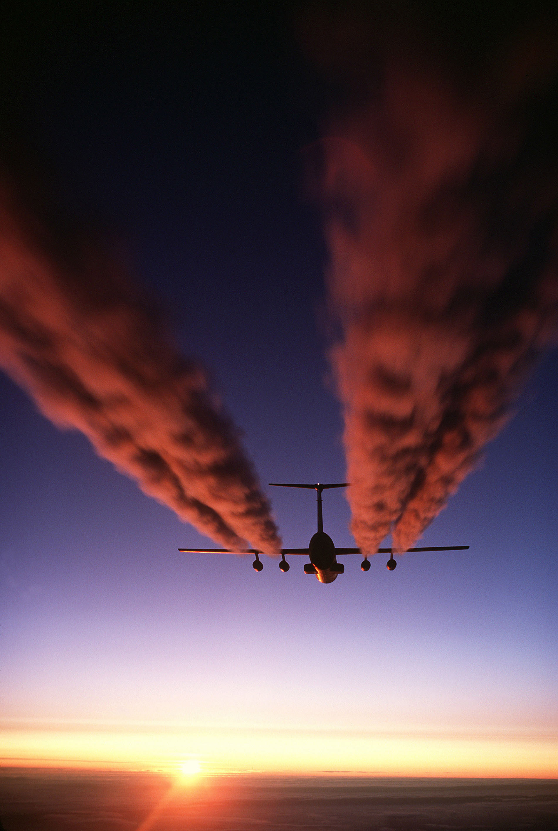 A C-141 Starlifter leaves a contrail over Antarctica. Original description: A C-141B Starlifter aircraft leaves four contrails behind it as it prepares for an airdrop during Operation Deep Freeze. Can airlift combat forces, equipment and supplies, and deliver them on the ground or by airdrop, using paratroop doors on each side and a rear loading ramp. It can be used for low-altitude delivery of paratroops and equipment, and high-altitude delivery of paratroops. It can also airdrop equipment and supplies using the container delivery system. It is the first aircraft designed to be compatible with the 463L Material Handling System, which permits off-loading 68,000 pounds (30,600 kilograms) of cargo, refueling and reloading a full load, all in less than an hour. The C-141 has an all-weather landing system, pressurized cabin and crew station. Its cargo compartment can easily be modified to perform around 30 different missions. About 200 troops or 155 fully equipped paratroops can sit in canvas side-facing seats, or 166 troops in rear-facing airline seats. Rollers in the aircraft floor allow quick and easy cargo pallet loading. A palletized lavatory and galley can be installed quickly to accommodate passengers, and when palletized cargo is not being carried, the rollers can be turned over to leave a smooth, flat surface for loading vehicles. In its aeromedical evacuation role, the Starlifter can carry about 103 litter patients, 113 ambulatory patients or a combination of the two. It provides rapid transfer of the sick and wounded from remote areas overseas to hospitals in the United States.